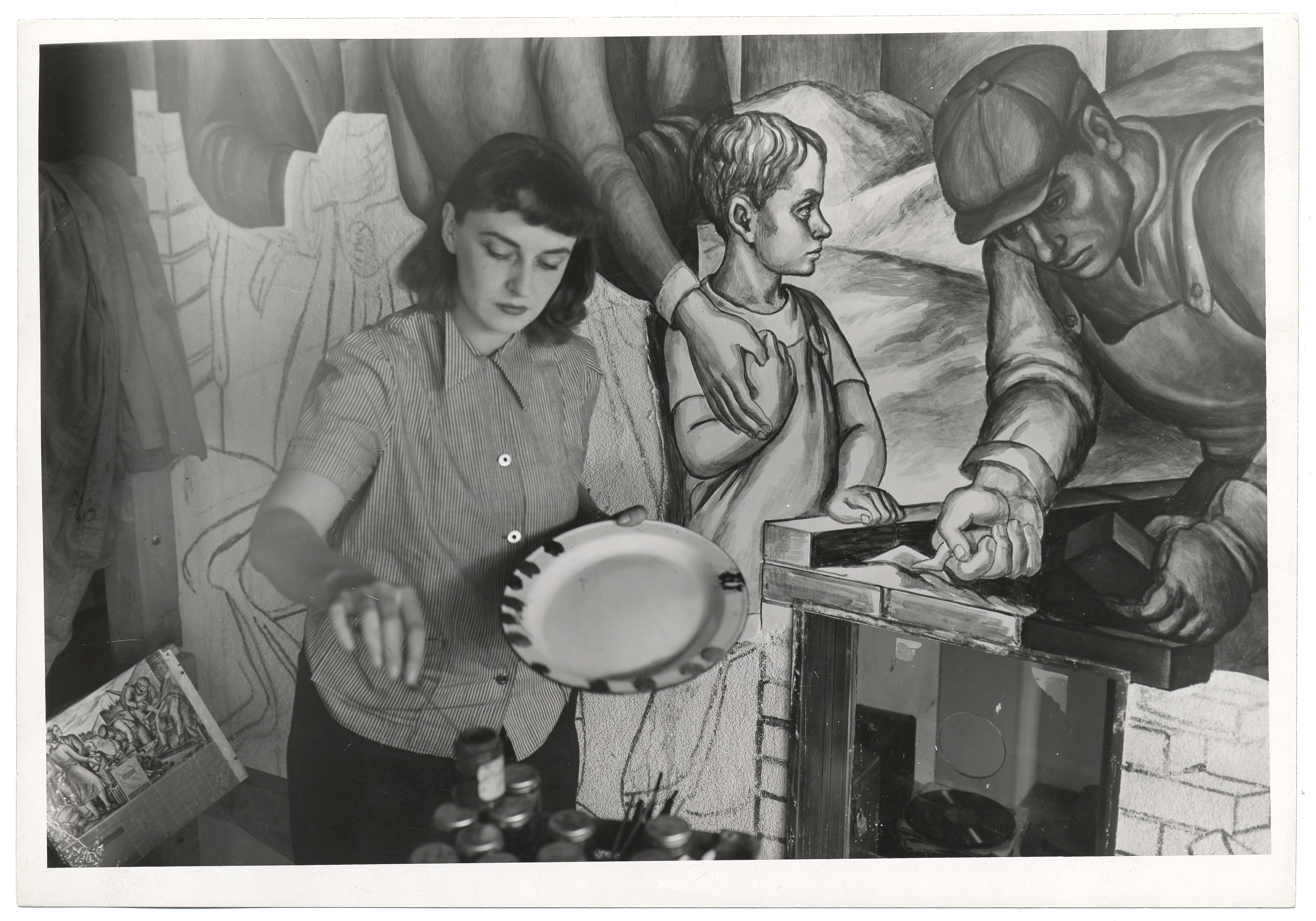 Greenwood dipping her brush into her palette while painting a mural for the WPA Federal Art Project.Identification on verso (handwritten and stamped): New York City W.P.A. Art Project; Photography Division; 110 King Street Neg. No.: P4140-3; Date: 6/25/40; Photog.: Sam Shalat; Artist: Marion Greenwood; Location: Red Hook Housing Project.